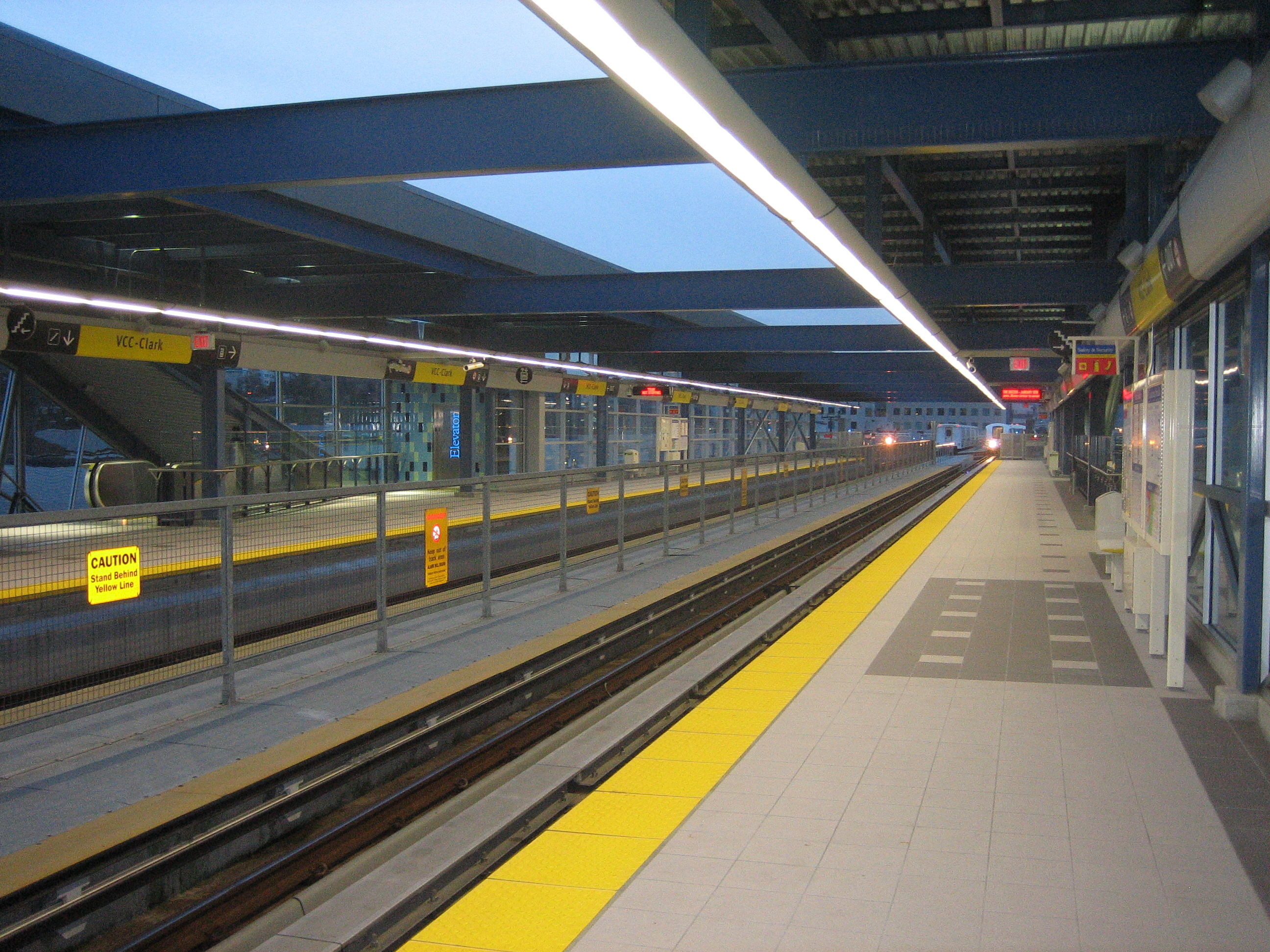 Platform-level of the VCC-Clark SkyTrain Station. Photograph taken by myself.